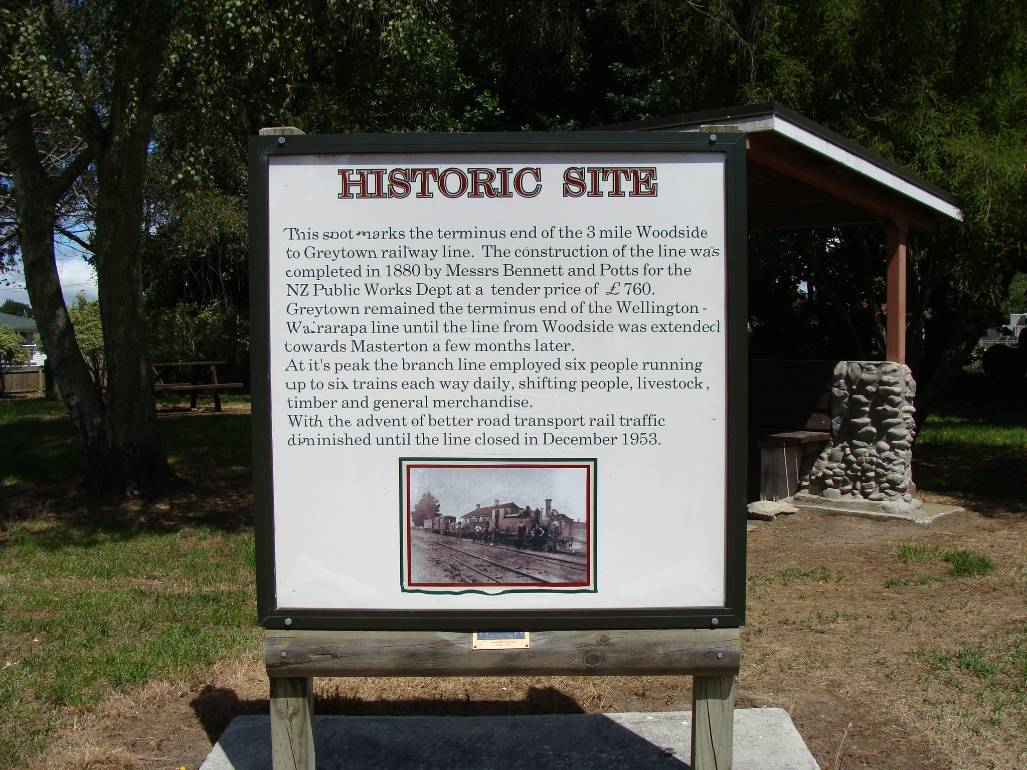 A sign in a reserve between the State Highway and the Greytown railway station yard informs visitors of the significance of the site.